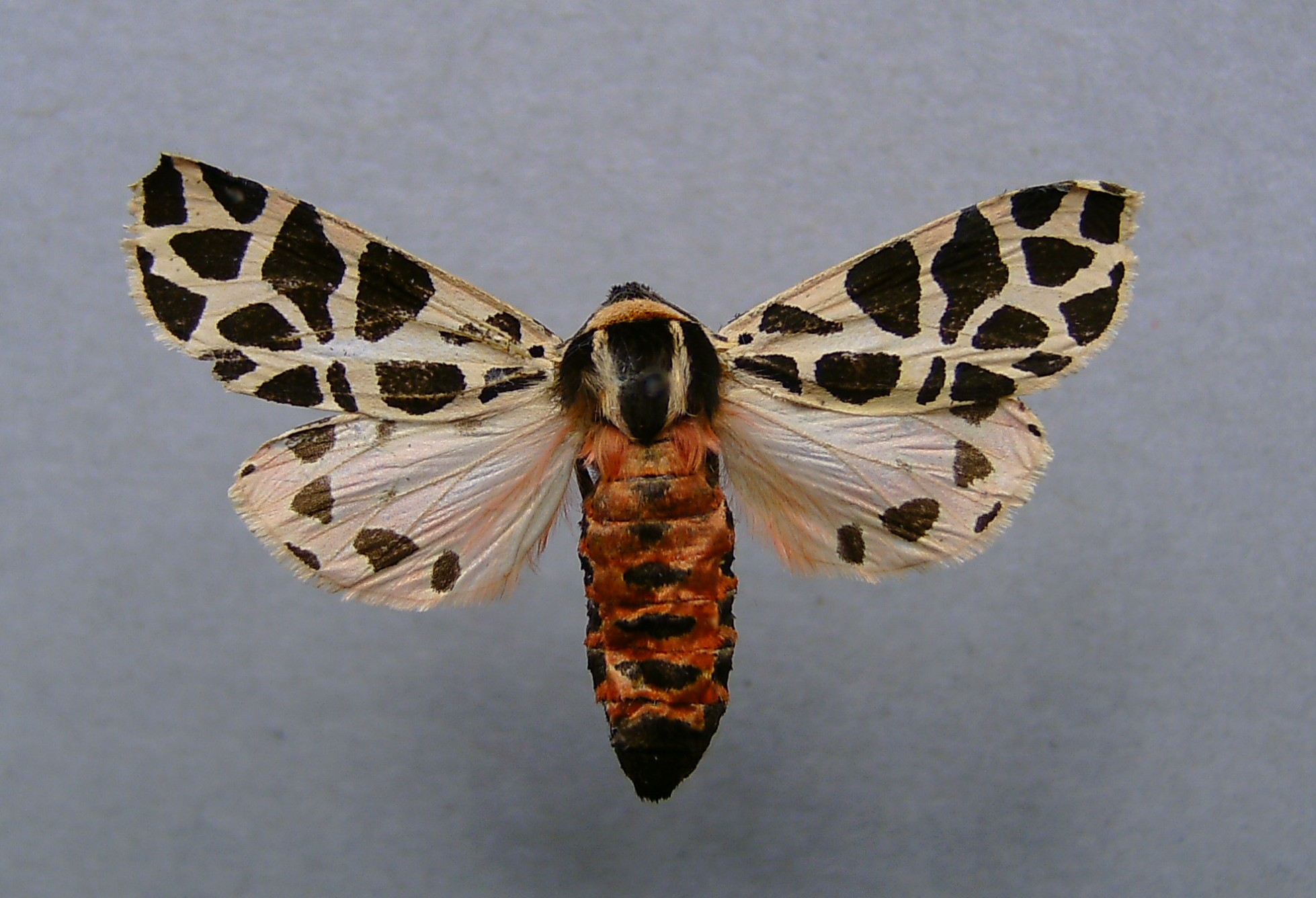 Cymbalophora pudica, Gardanne (Aix-en-Provence), France